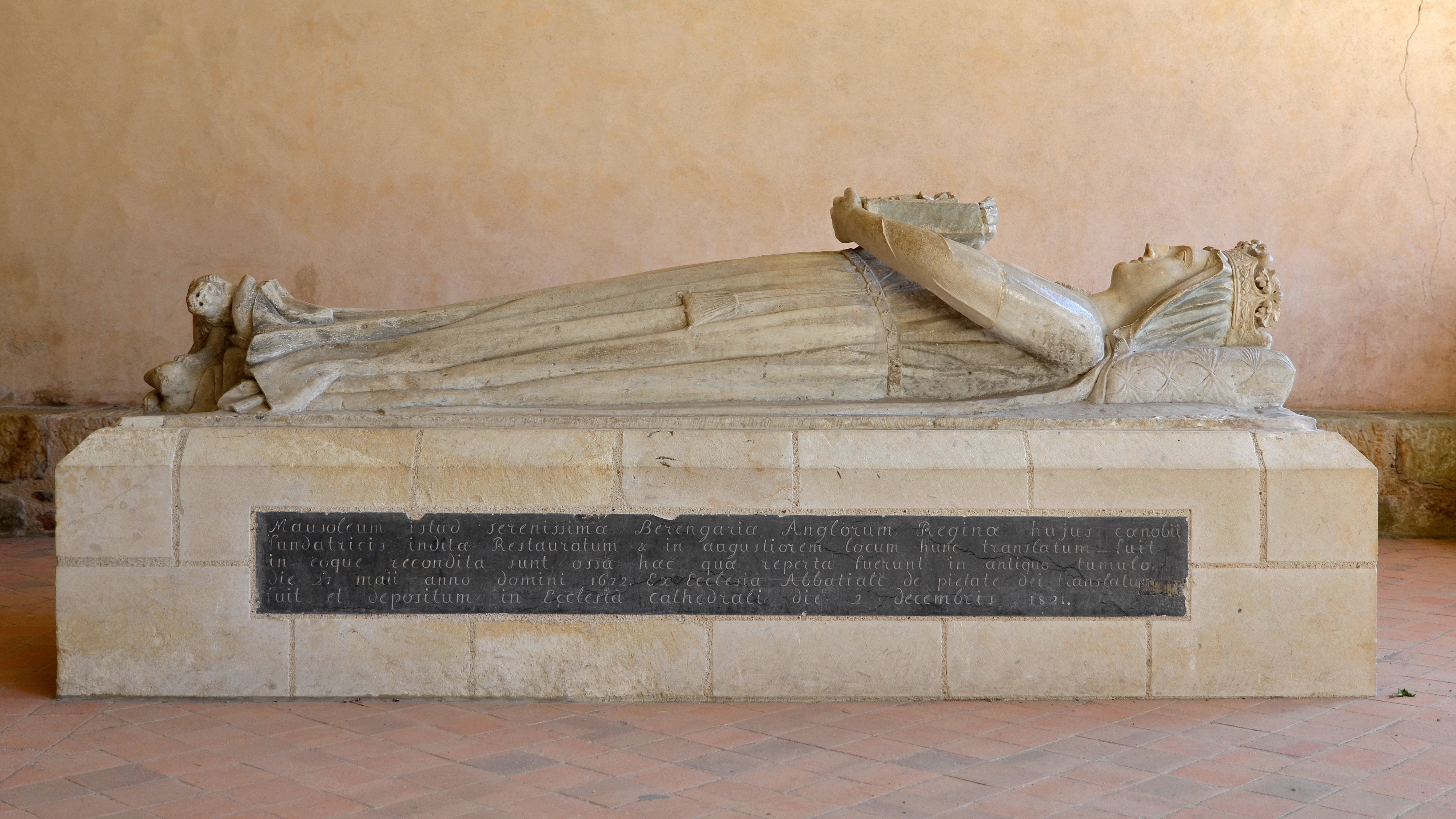 Effigy of Berengaria of Navarre in the chapter house of Épau abbey - Yvré-l'Évêque, Sarthe, France .